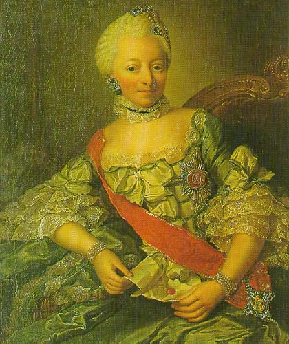 Portrait of Duchess Louise Frederica of Württemberg (1722-1791)